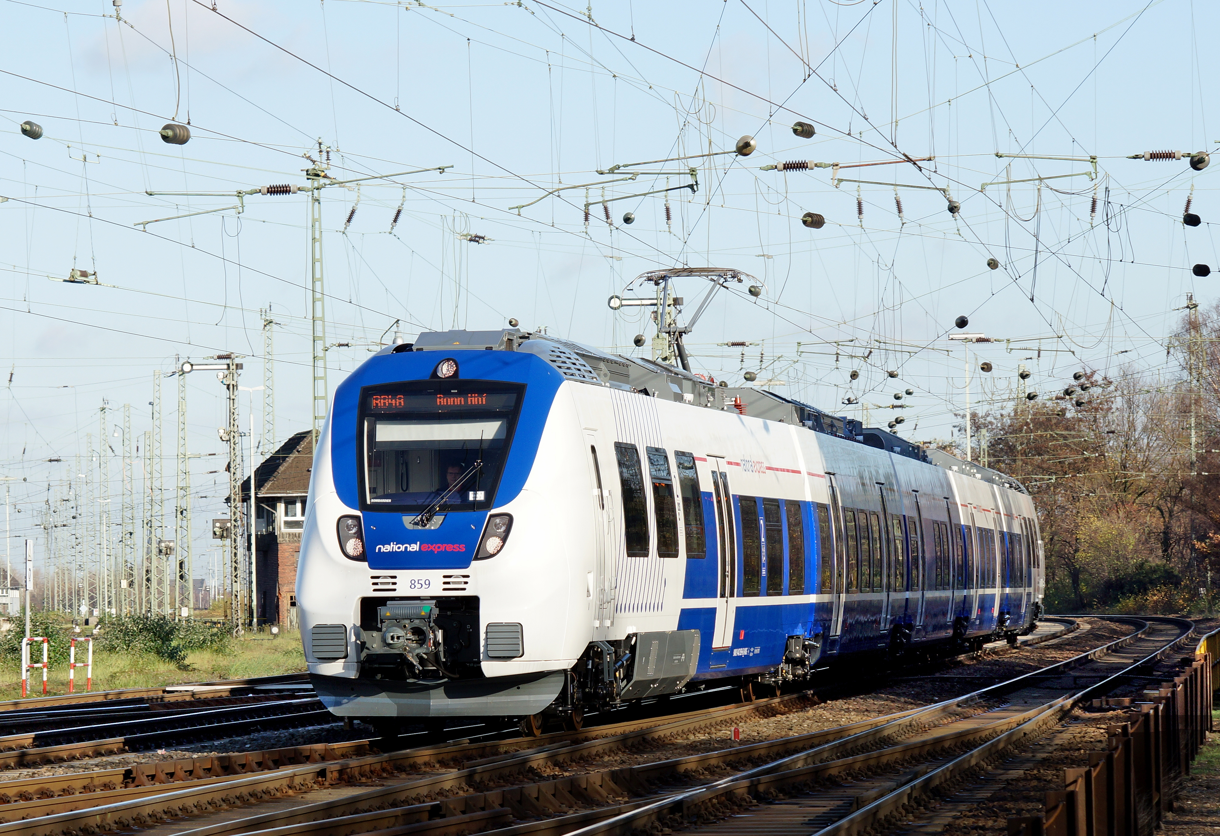 Bombardier Talent 2 of NX Rail (NEX 356/856) in the near of the marshalling yard Köln-Kalk Nord